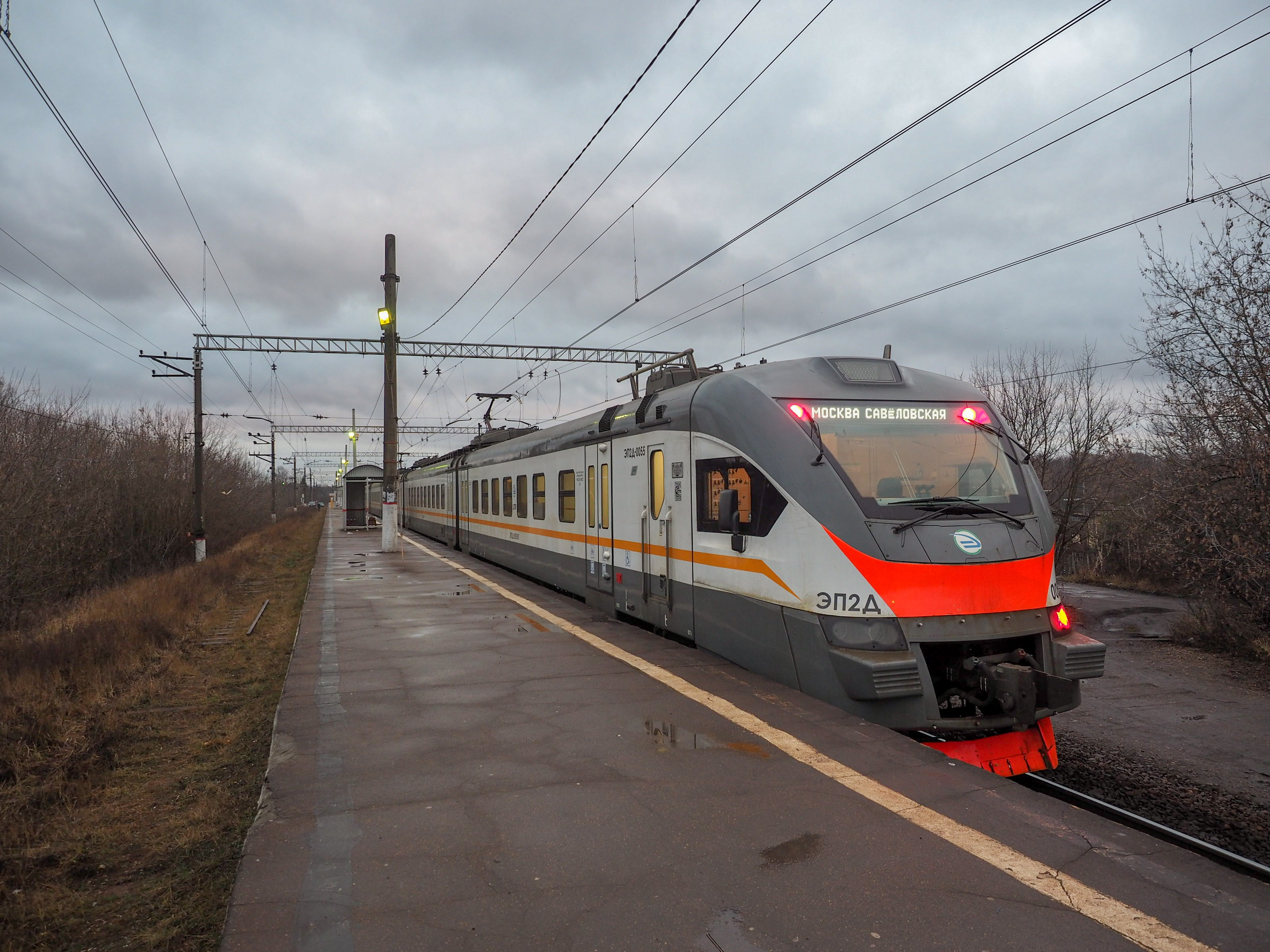 EP2D-0055 train. Orudievo station